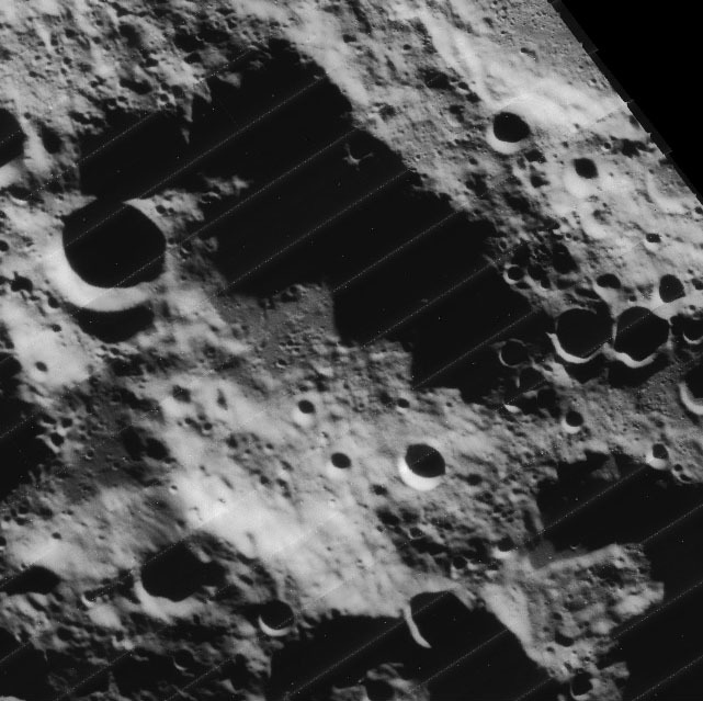 Crater Scott. Detail from Lunar Orbiter IV-094H. High resolution scans from the USGS Lunar Orbiter Digitization Project remapped to a north-up aerial view by LTVT.